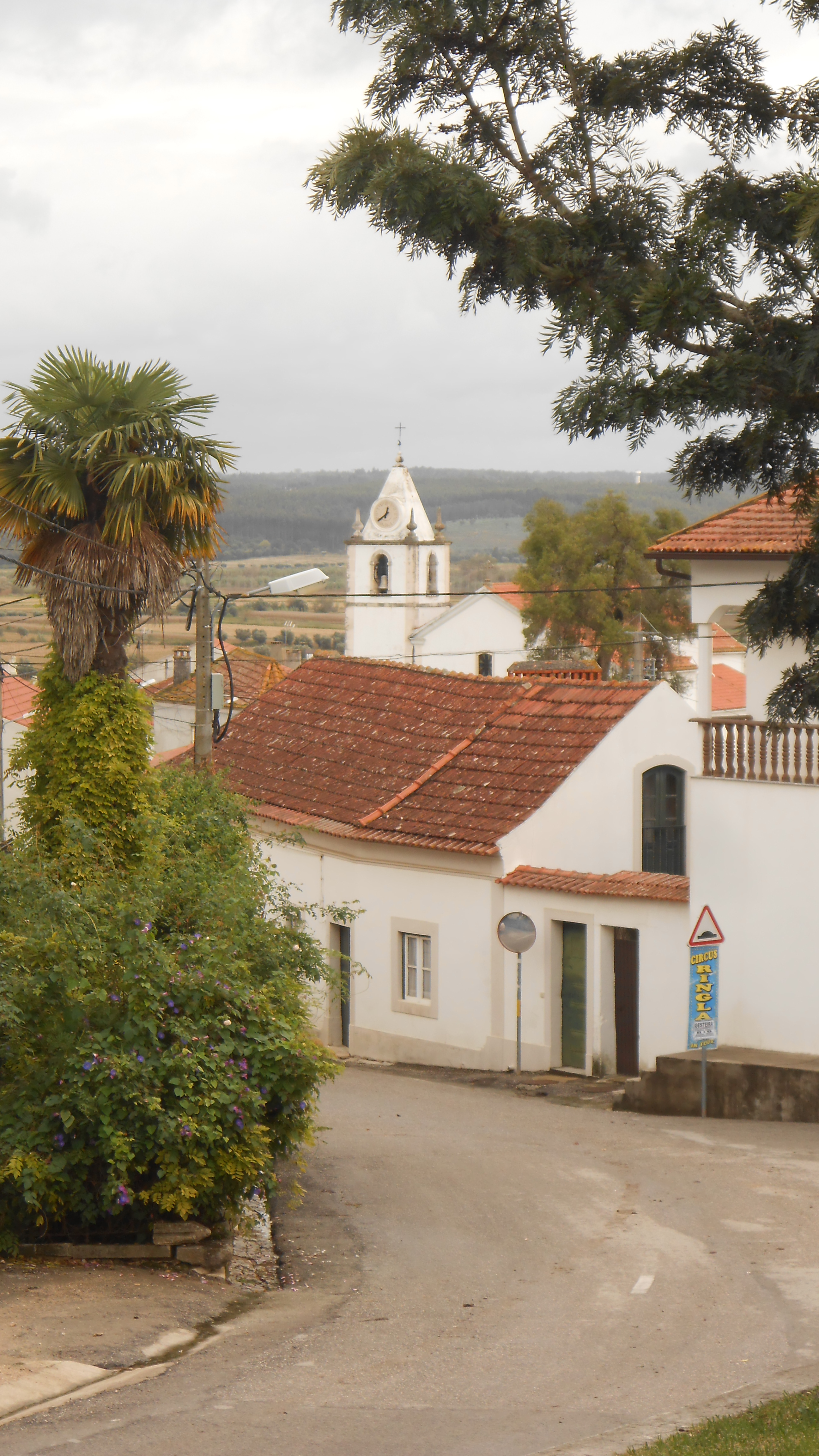 View over the village of Gesteira, a parish of the municipality of Soure in the Coimbra district, in Portugal.